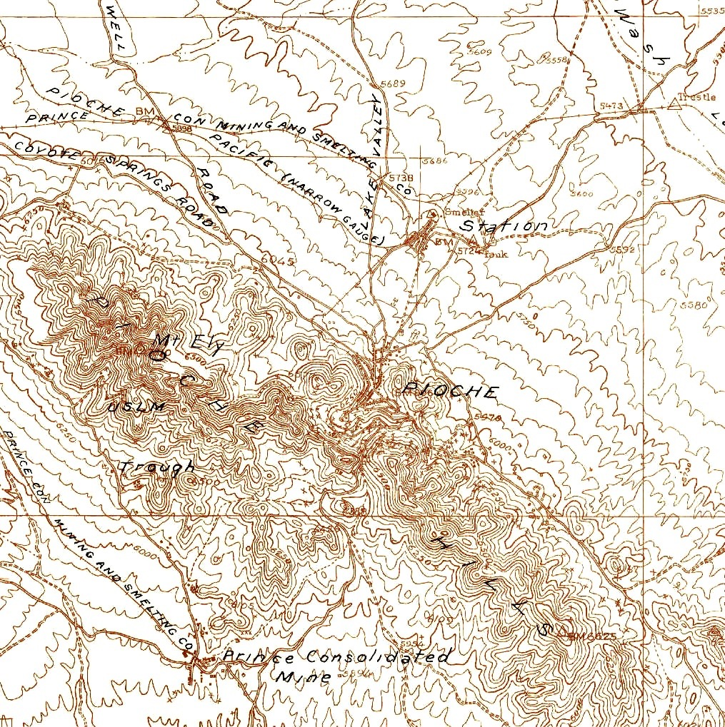 Los Angeles and Salt Lake RR was the main line connection from the northeast